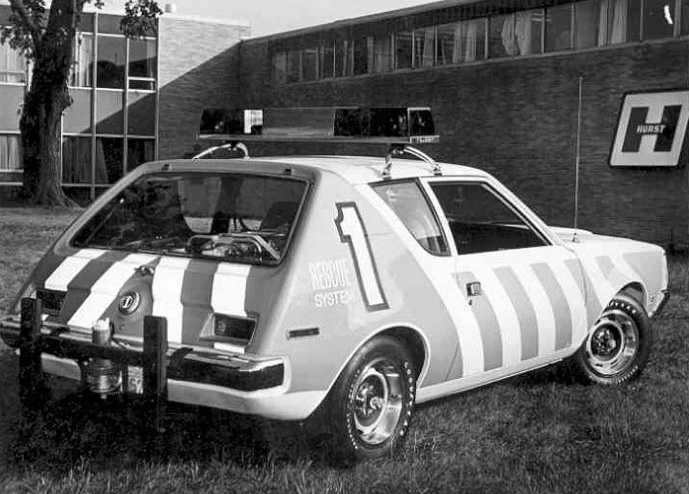 A 1973 photograph advertising the Hurst Performance "Hurst Rescue System 1" vehicle, a modified AMC Gremlin. The company was marketing "a highway safety vehicle" for emergency services. It serves as an example of how it promoted this vehicle as a quick, compact, and lower-cost alternative to the large specialized vehicles (and slow trucks) for use at motor sport facilities (race tracks, dragstrips, etc.), as well as by highway emergency responders, rescue and fire departments.